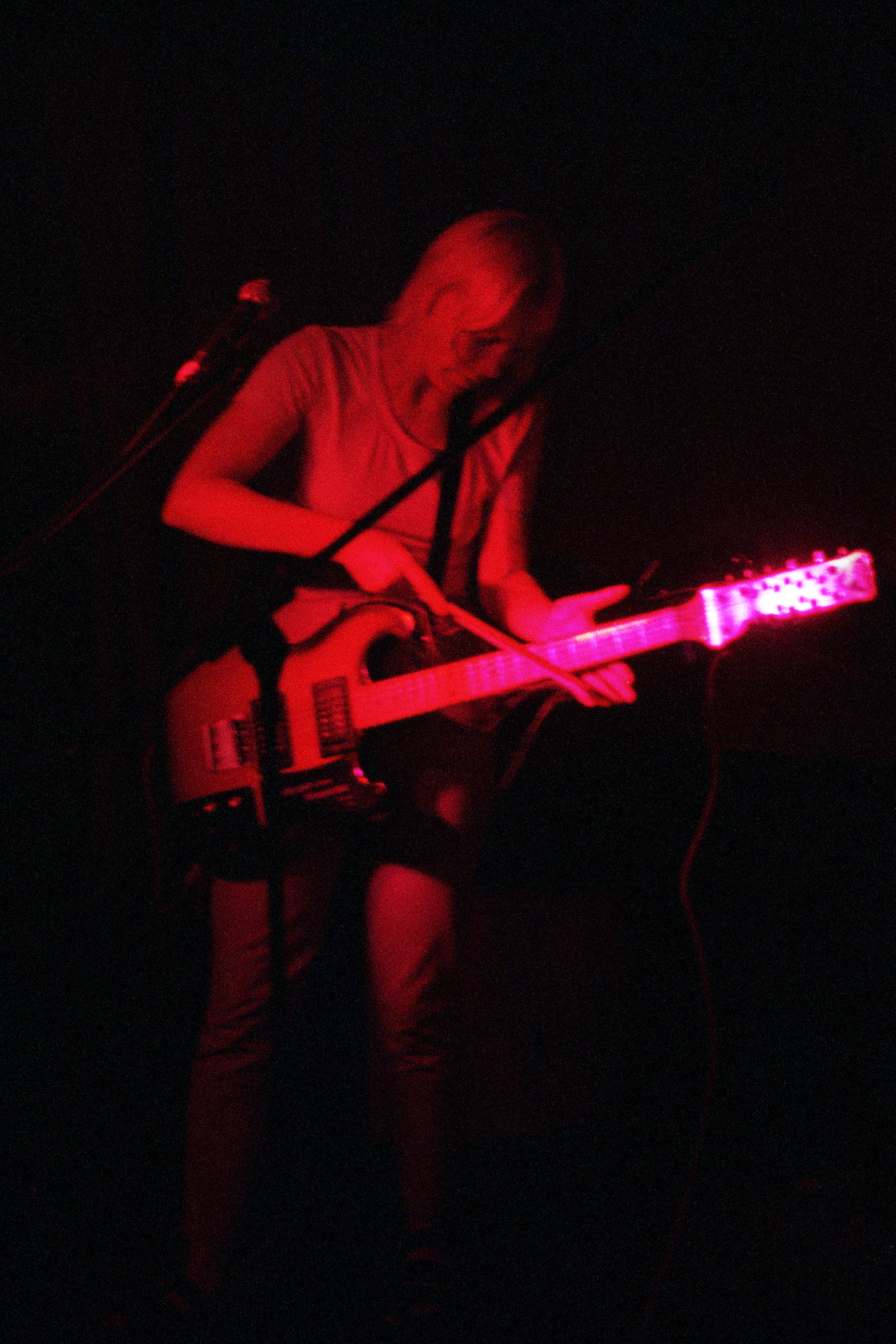 Ann Matthews, Ectogram . Concert at The Turff, Wrexham. December 1995. Image by Medwyn.